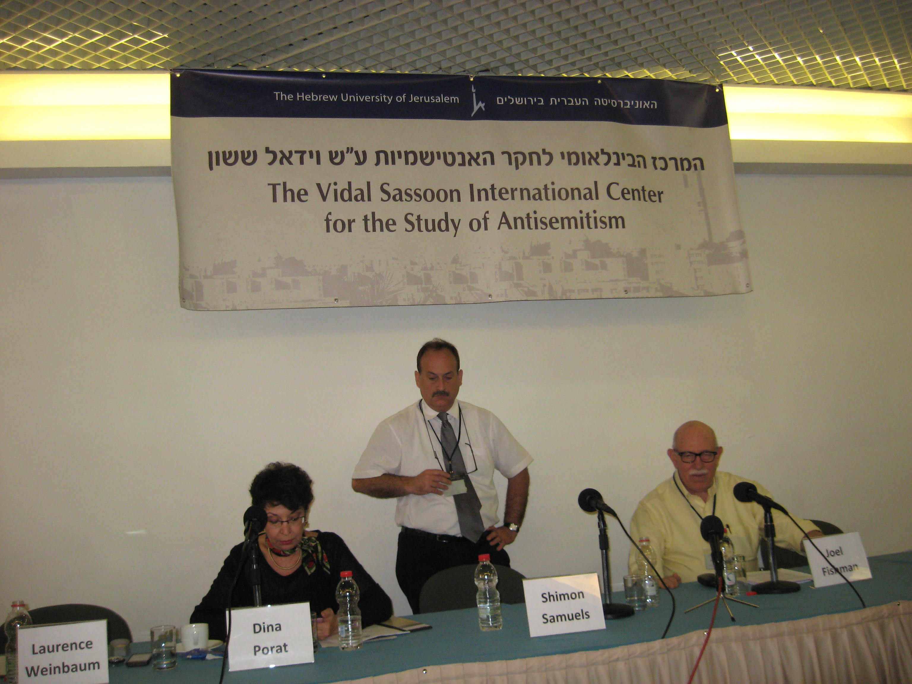 Dina Porat, Laurence Weinbaum and Joel Fishman at the SICSA International Conference "Anti-judaism, Antisemitism, Delegitimizing Israel" 2014 in Jerusalem